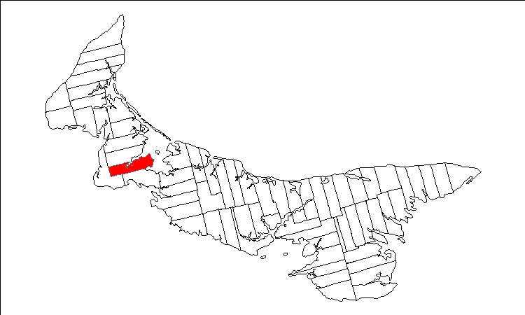 Public domain map of Prince Edward Island created by User:Plasma east with data courtesy of Geogratis, modified to show townships. Released under GFDL (self).